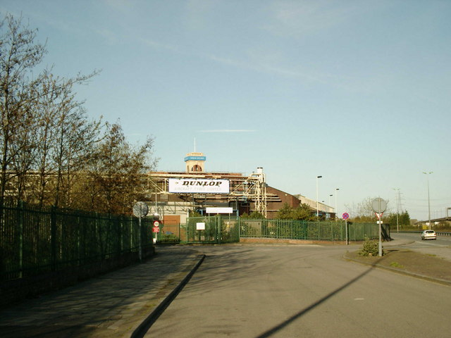 Dunlop Tyres Entrance gate to Dunlop Tyres on the Fort Parkway with the Fort Dunlop Building behind.